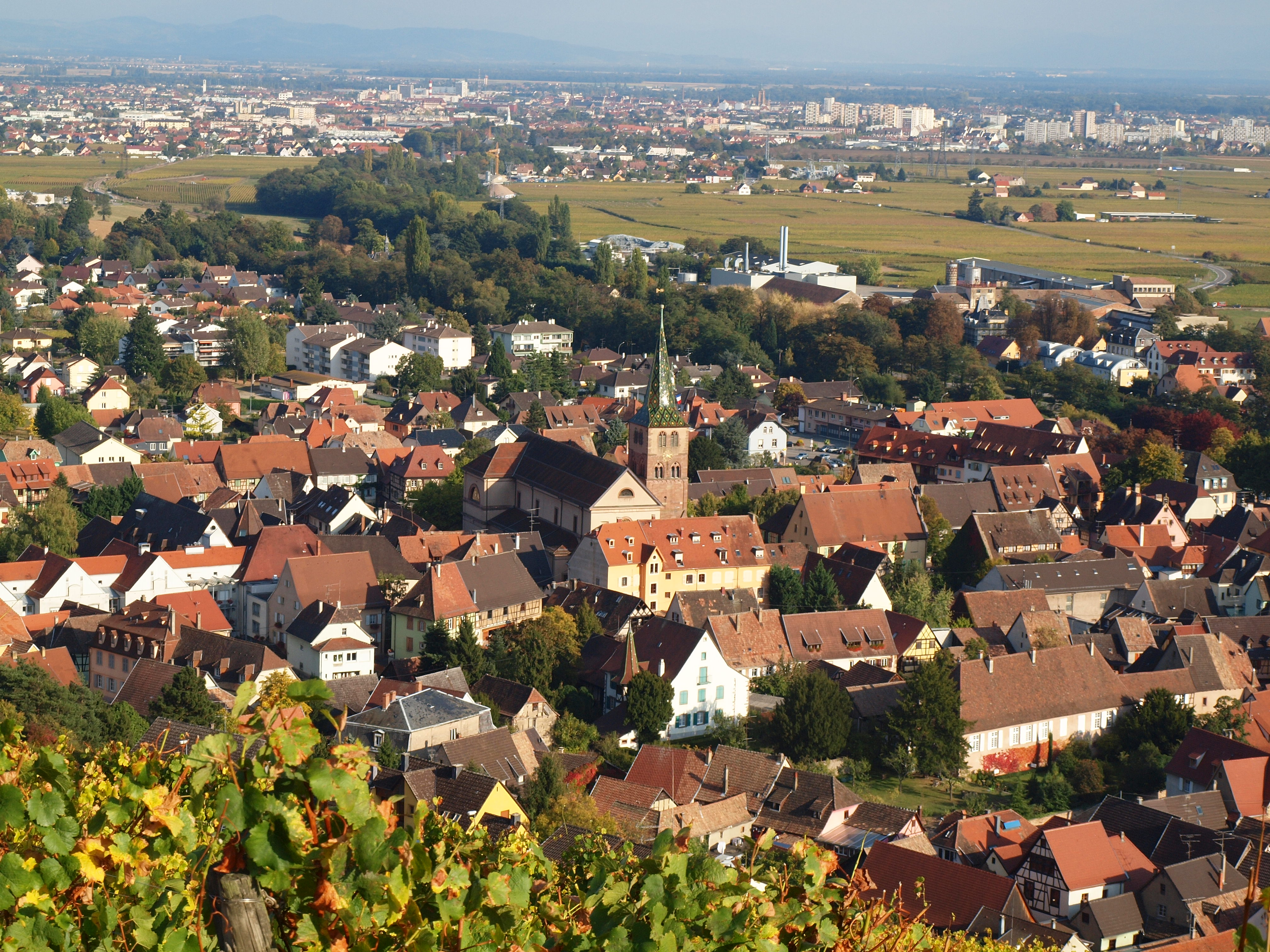 Turckheim (front) and Colmar (rear), Alsace, France